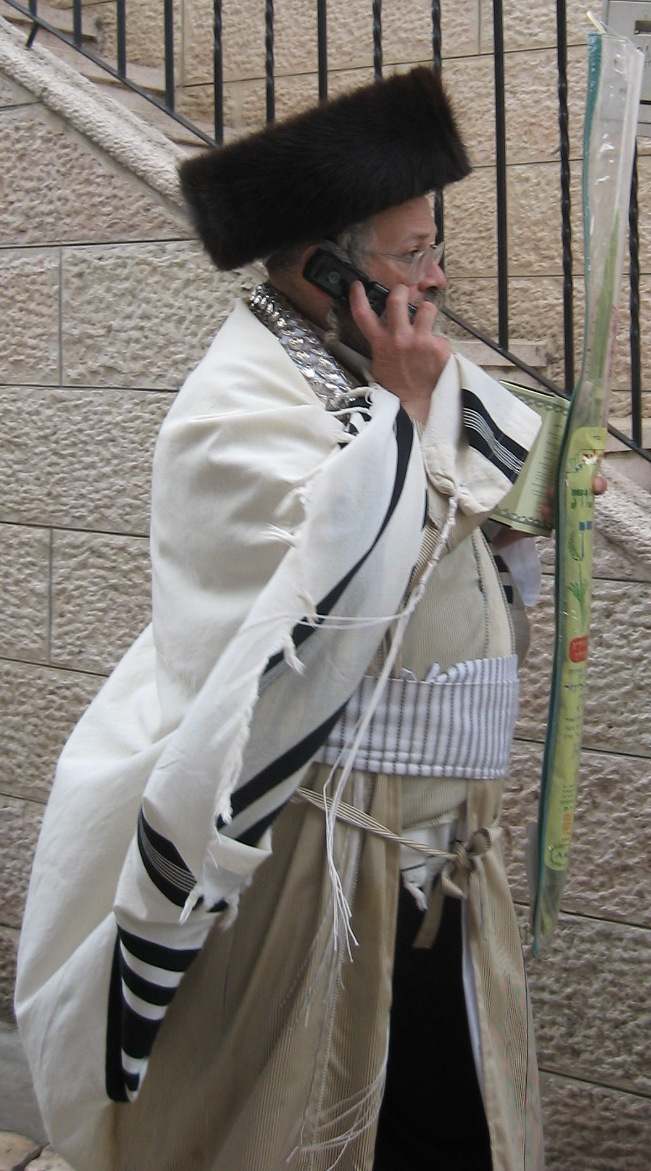 Based on [1]